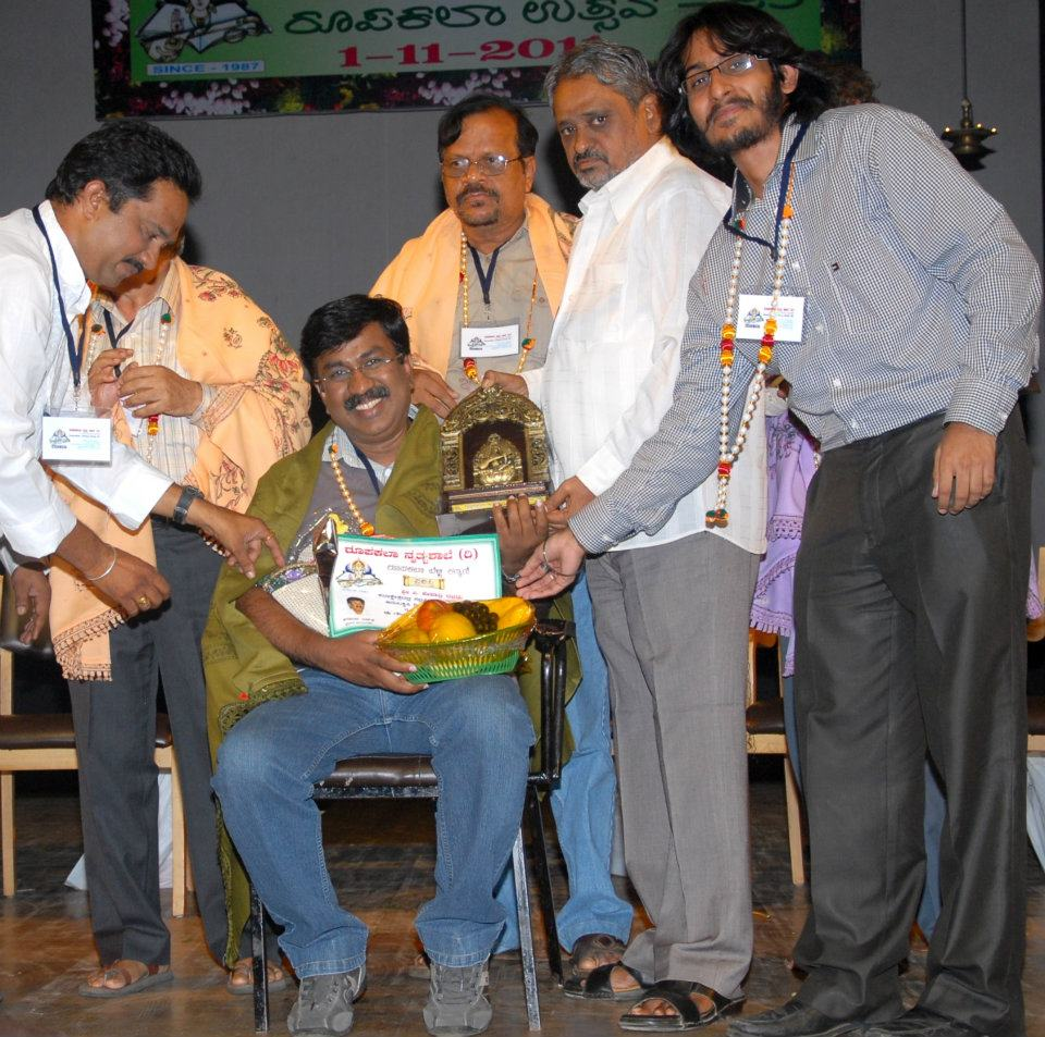 Roopakala Award to National Award winning director P Sheshadri